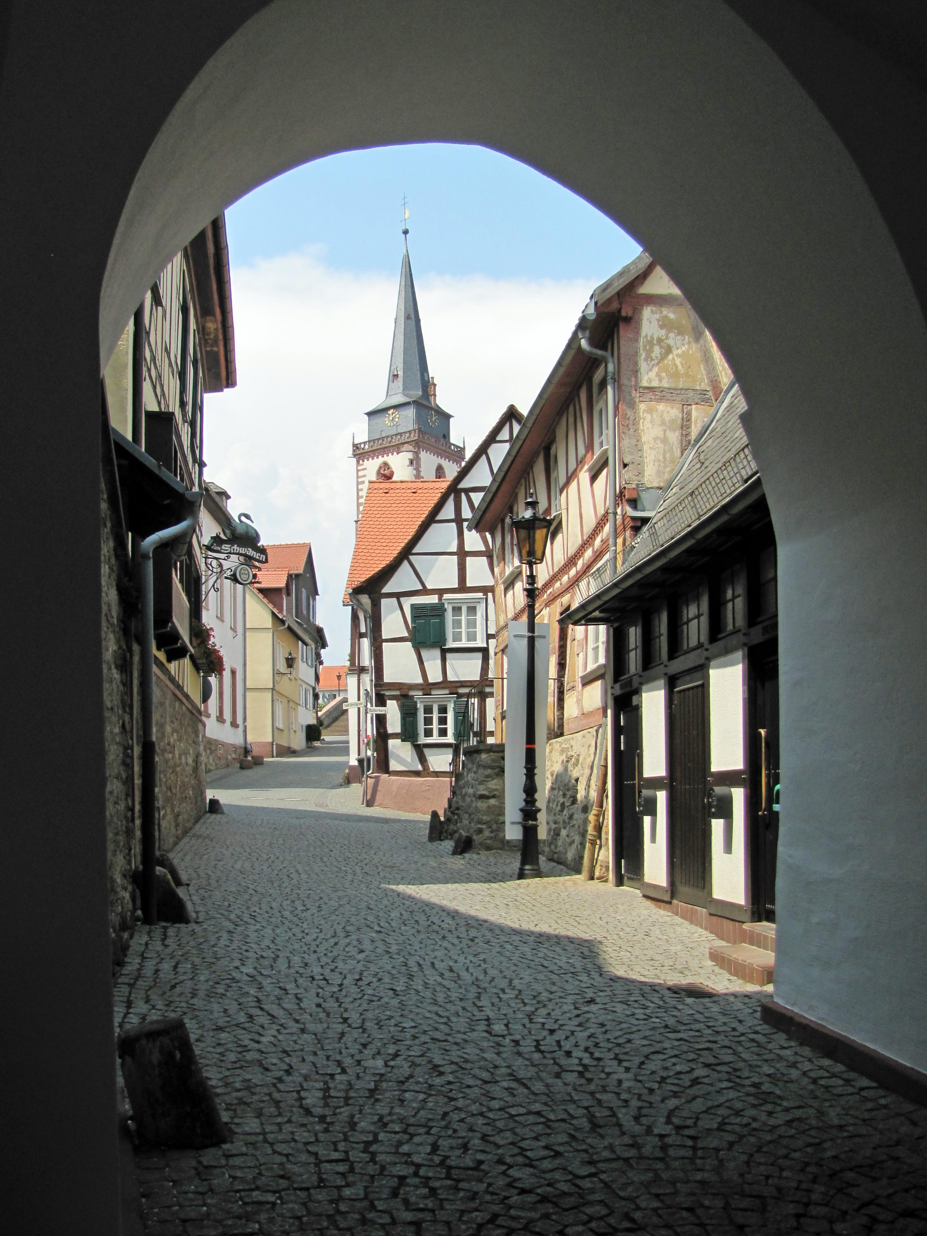 Saint Ursula church in Oberursel, Hesse, Germany.